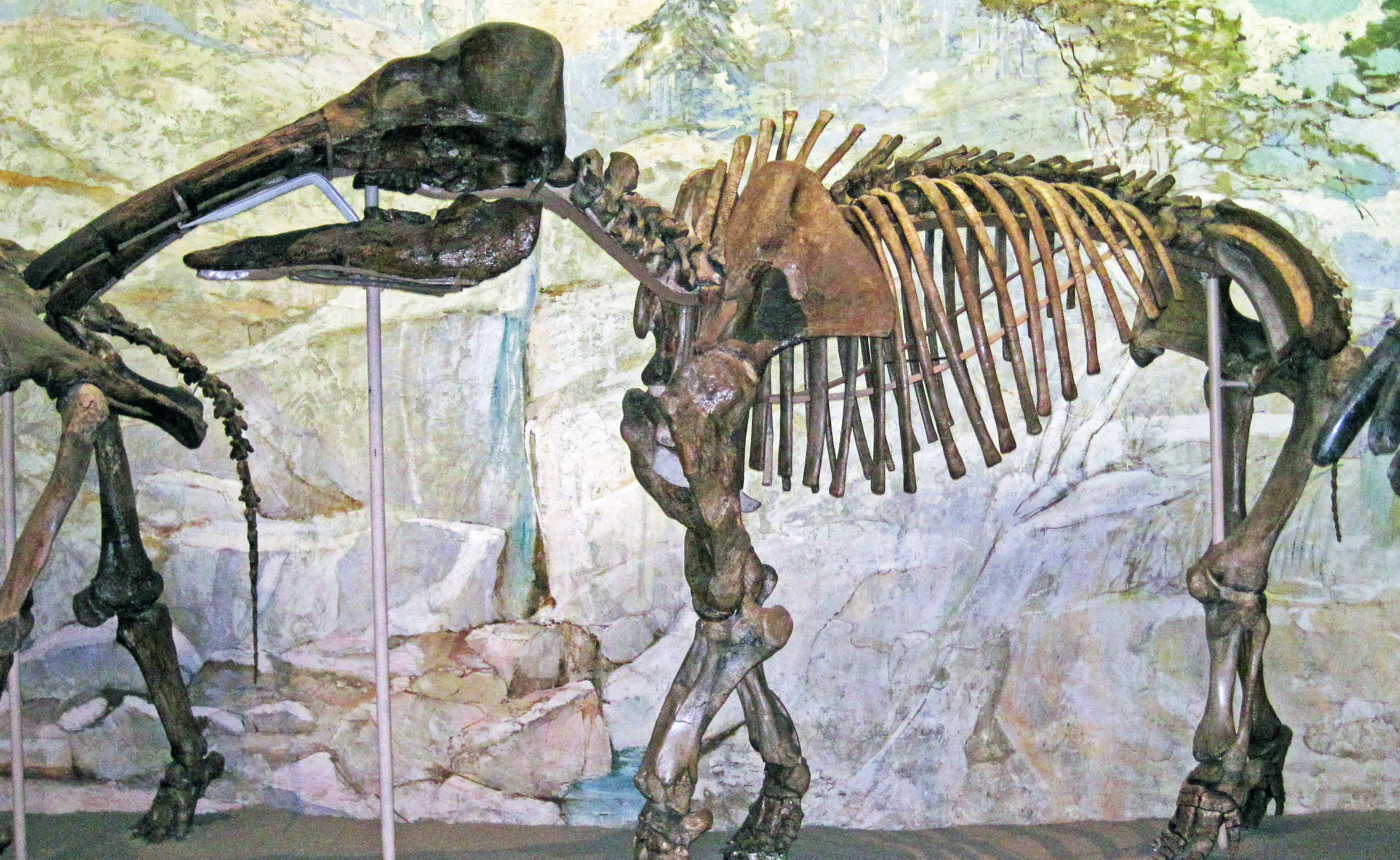 Eubelodon morrilli Barbour, 1914 - fossil perfect tusker elephant skeleton from the Miocene of Nebraska, USA. (public display, Nebraska State Museum of Natural History, Lincoln, Nebraska, USA) From museum signage: Like giraffes, perfect tuskers could feed on treetops, beyond the reach of other animals. They stood taller than earlier elephants and probably had a long trunk. Notice the relatively short jaw. Short jaws allowed room for the evolution of a long trunk. This is the world's only mounted skeleton of a perfect tusker. Classification: Animalia, Chordata, Vertebrata, Mammalia, Proboscidea, Gomphotheriidae Locality: undisclosed site in Brown County, northern Nebraska, USA See info. at